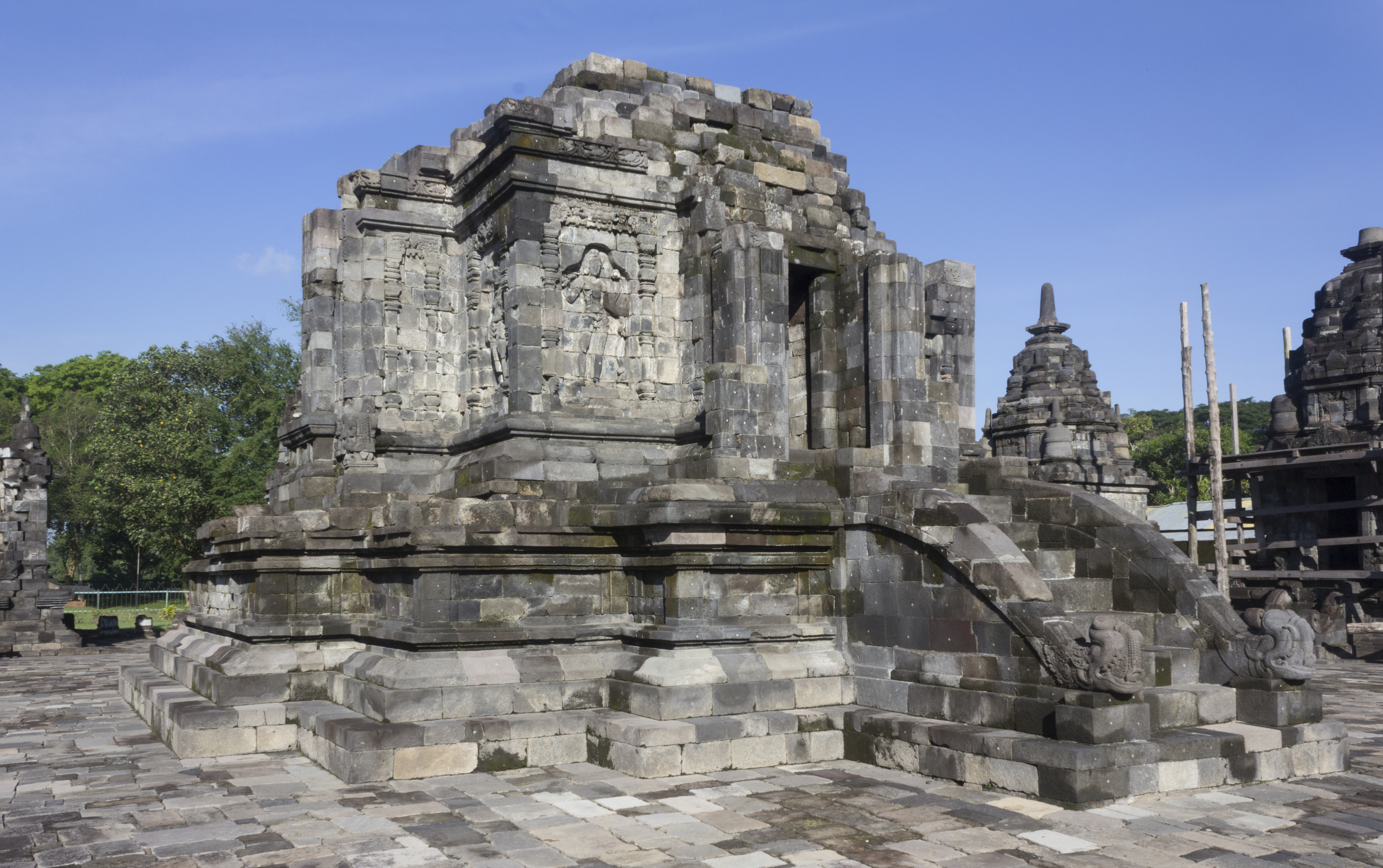 Main temple, Lumbung, 23 November 2013